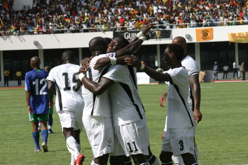 Ghana nation football team (Black Stars) goal celebration in a 2010 FIFA World Cup Qualification match.